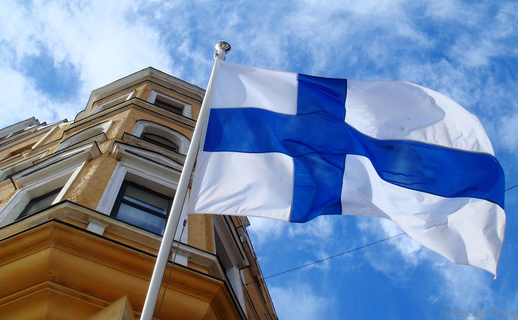 Vappu Day in Helsinki